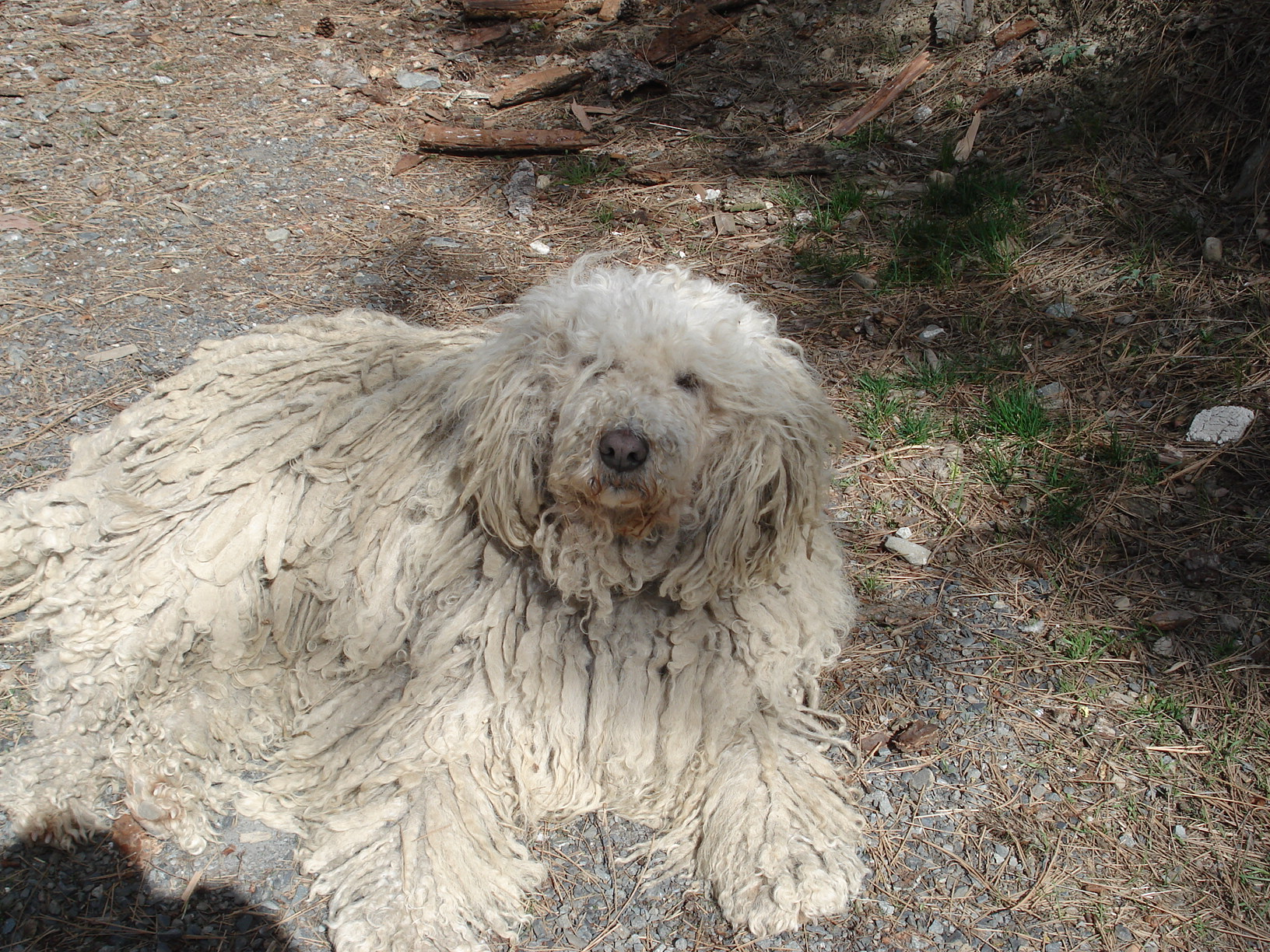 A Komondor lying down.